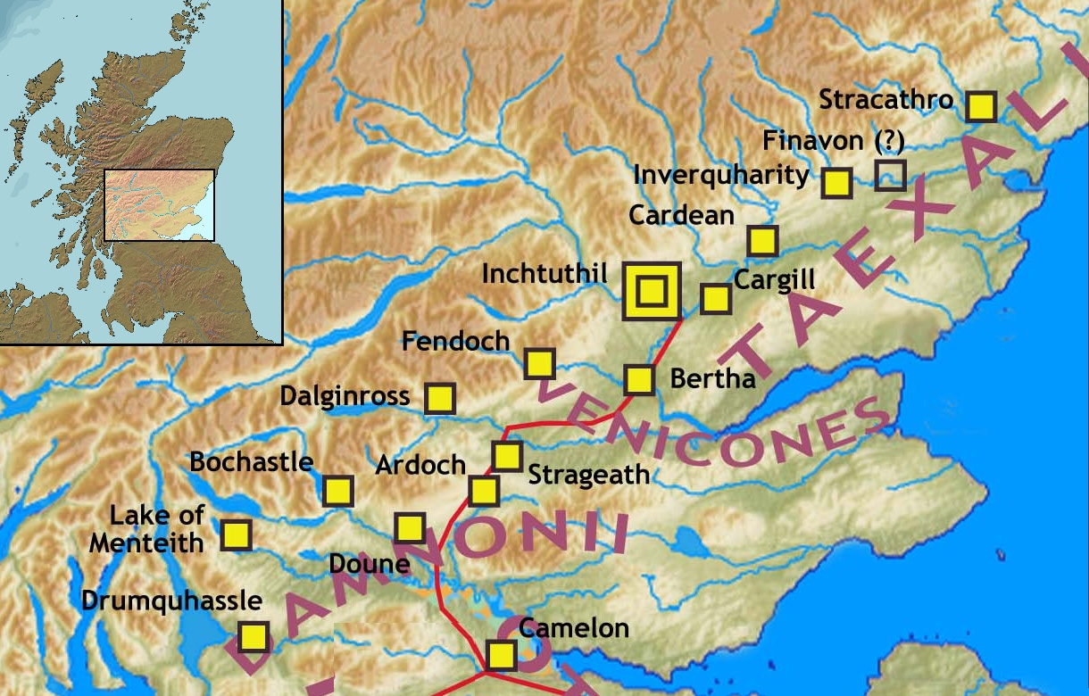 The Gask Ridge frontier. A series of fortifications, built by the Romans in Scotland, close to the Highland Line sometime between 70 and 80 CE.